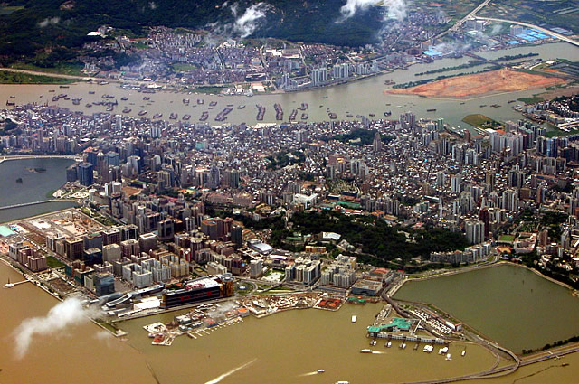 Macau peninsula